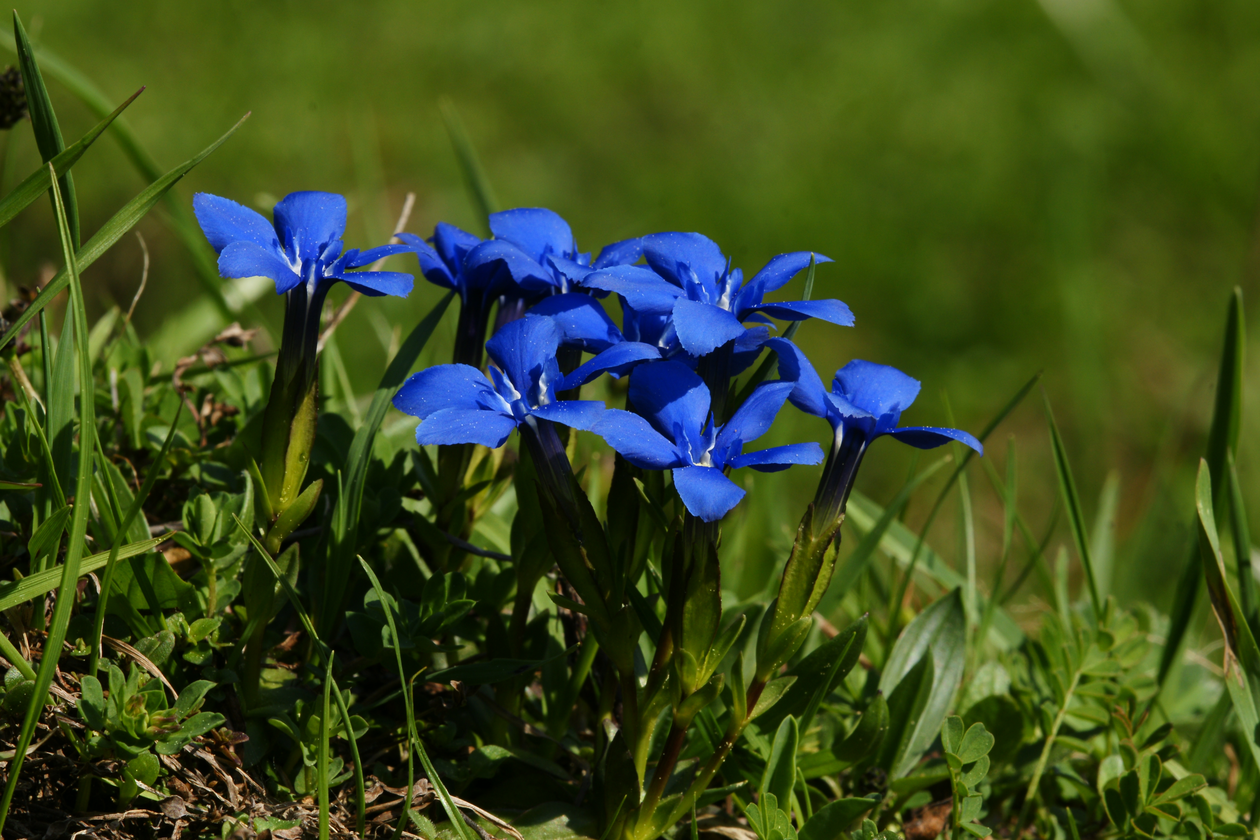 The Spring Gentian (Gentiana verna) is a species of the genus Gentiana and one of its smallest members, normally only growing to a height of a few centimetres.